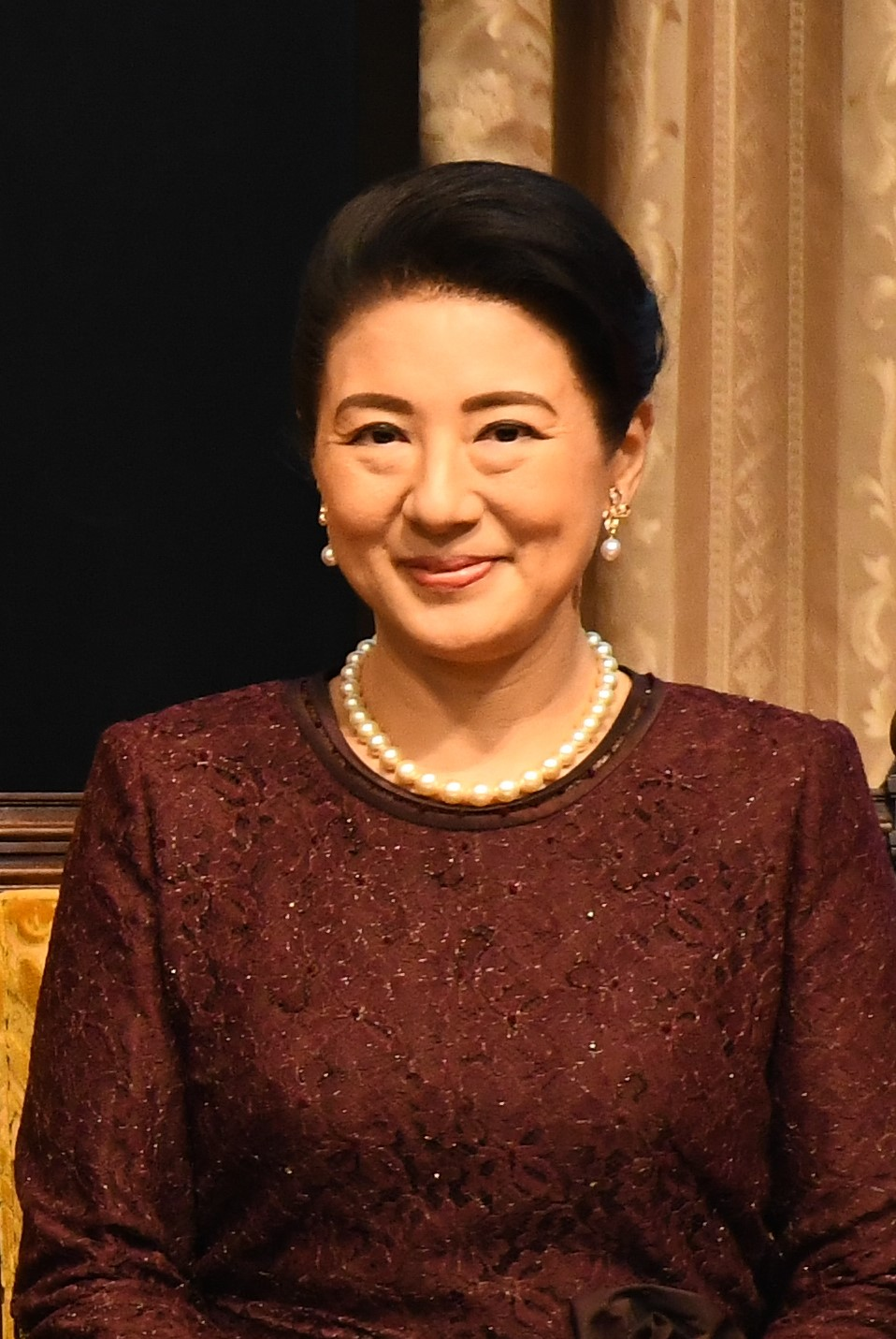 Empress Masako